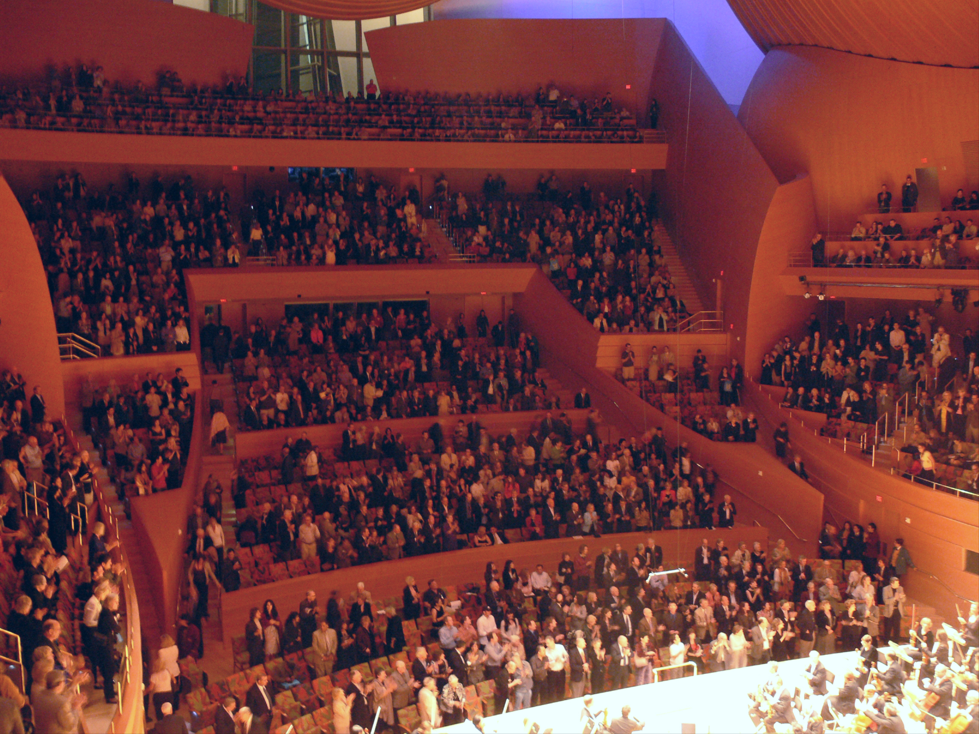 Walt Disney Concert Hall, Los Angeles Auditorium